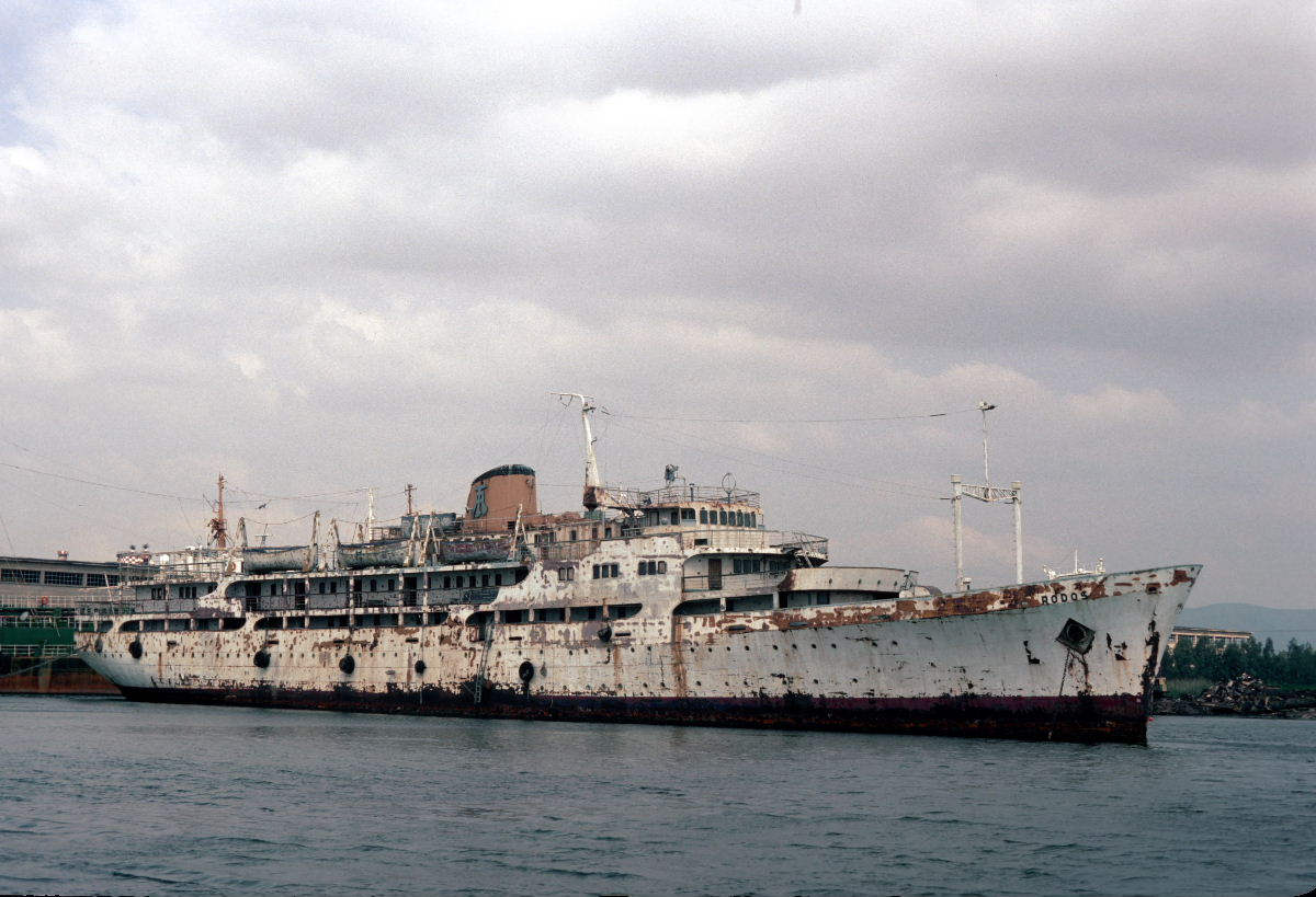 The cruise ship Rodos laid up in Eleusis on July 7, 1986.